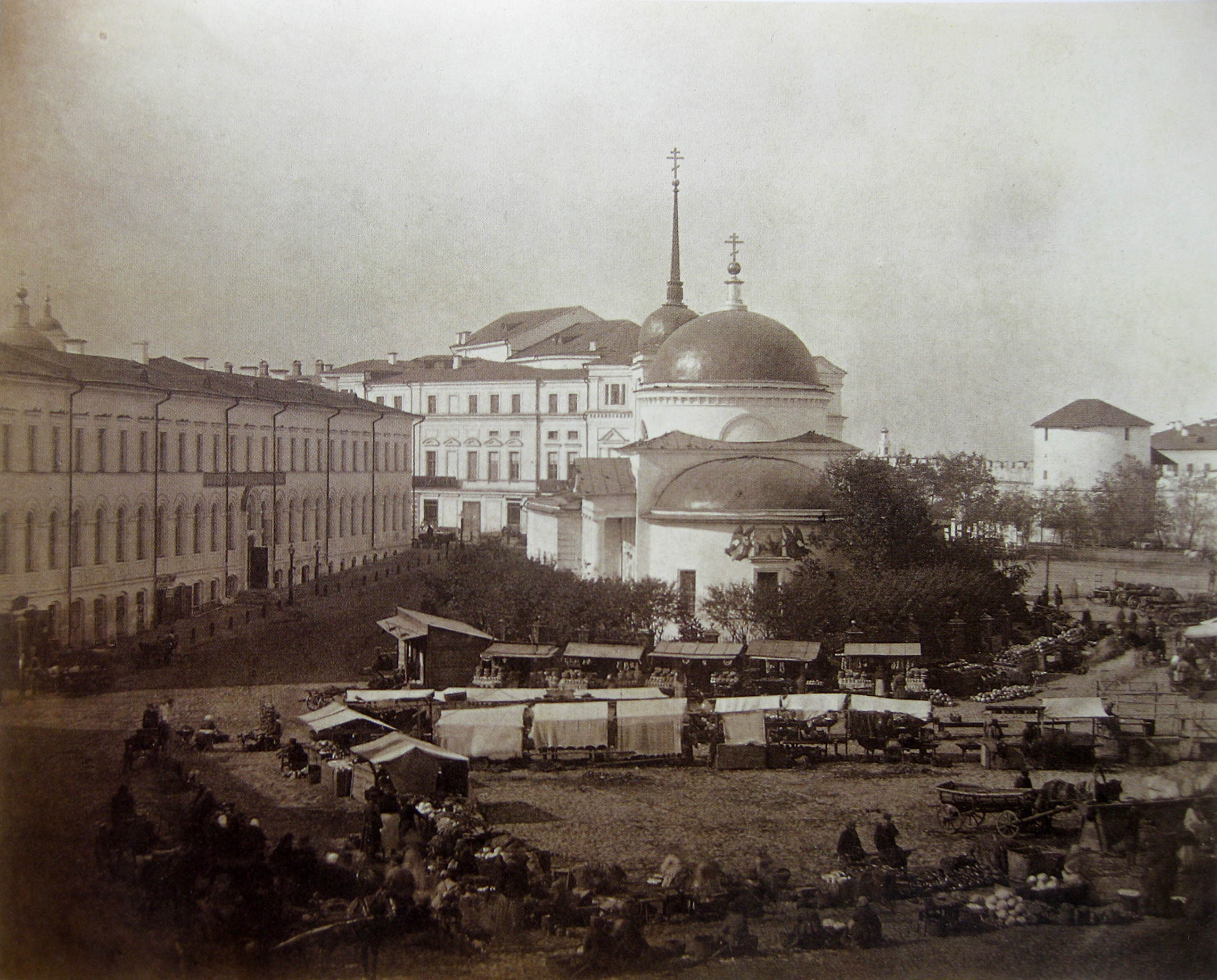 Metropolitan Alexey's Church in Annunciation Square, Nyzhny Novgorod